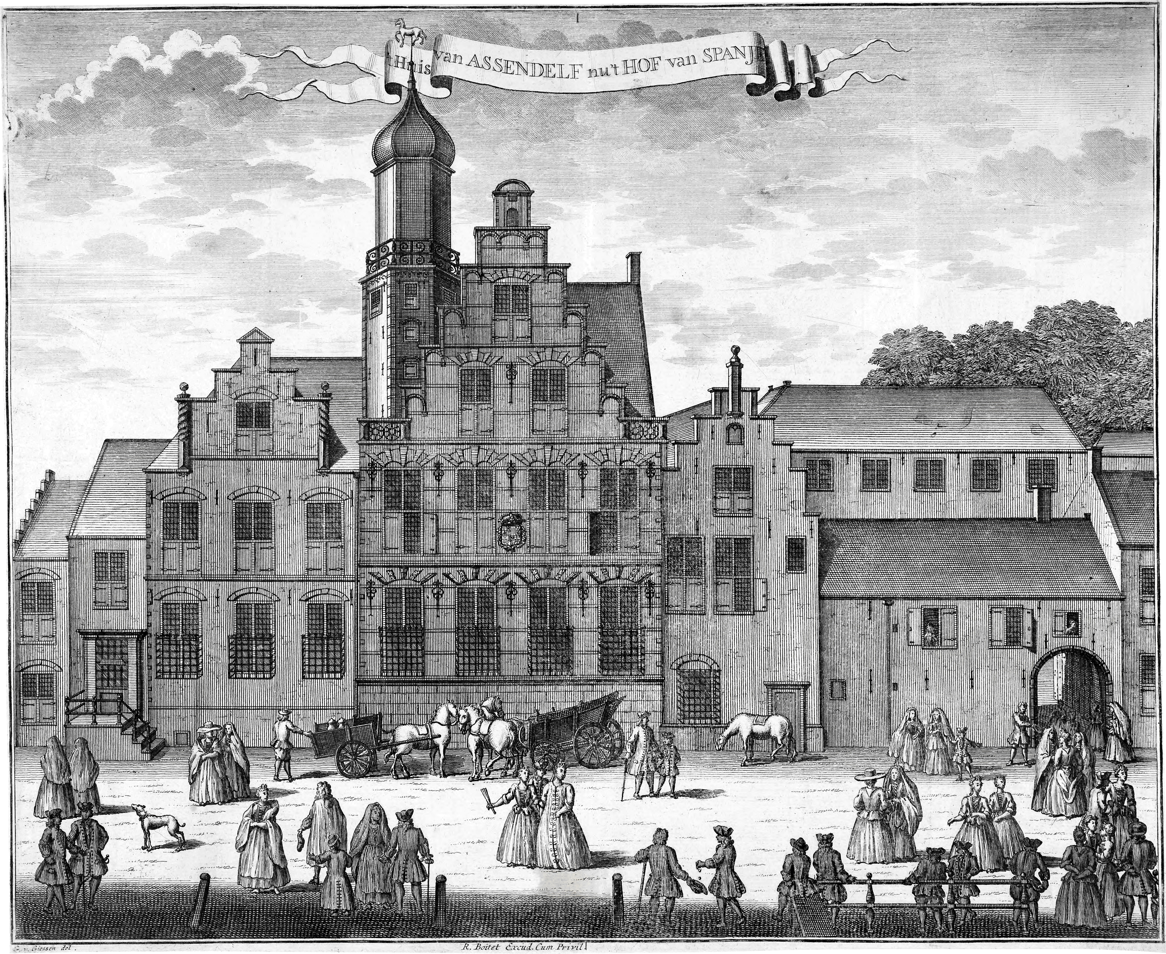 The home of the noble family Van Assendelft at Westeinde in The Hague. In later times it was used as an embassy of Spain.